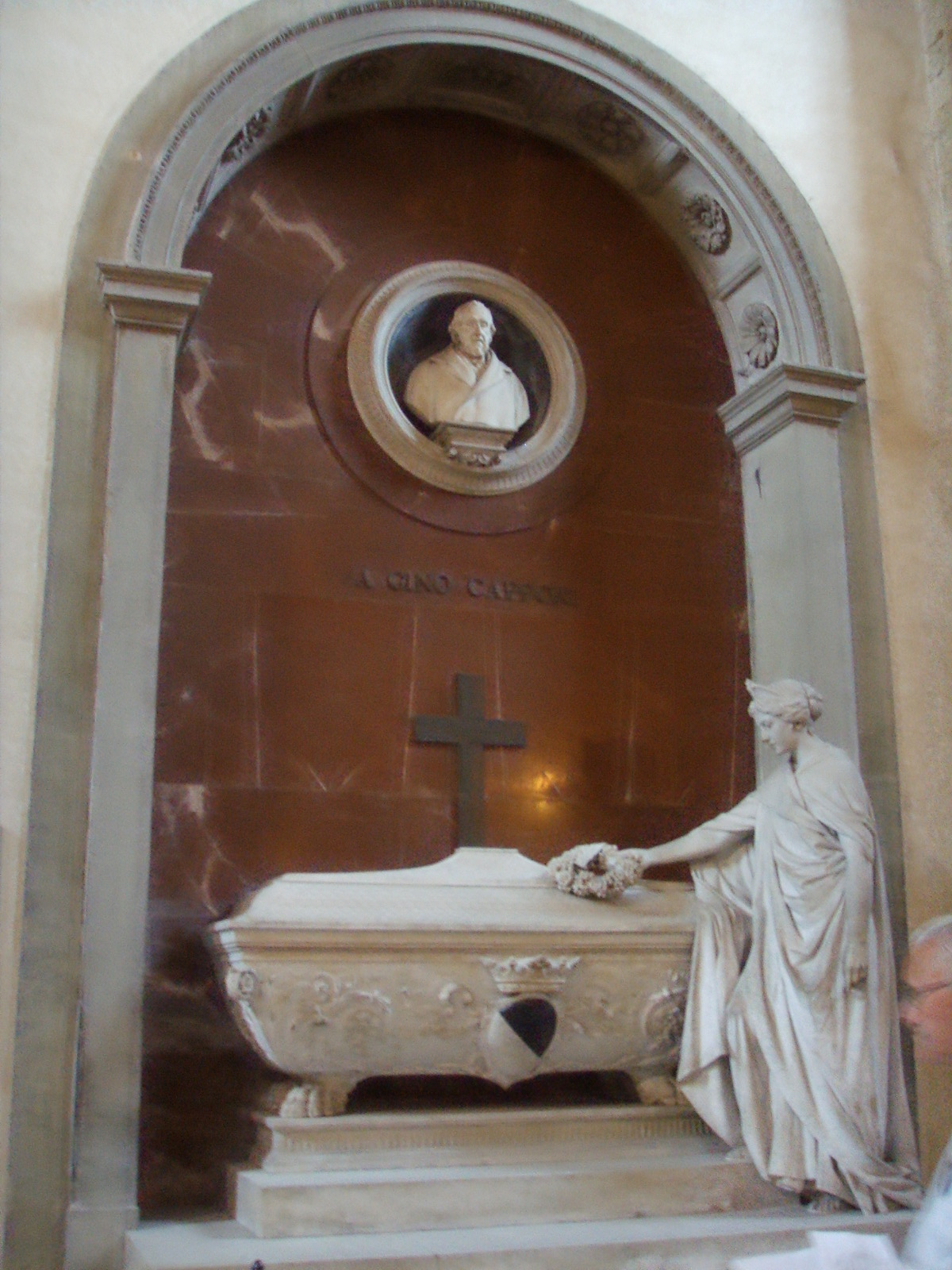 Santa Croce church, monument to Gino Capponi, inside, in Florence, Italy